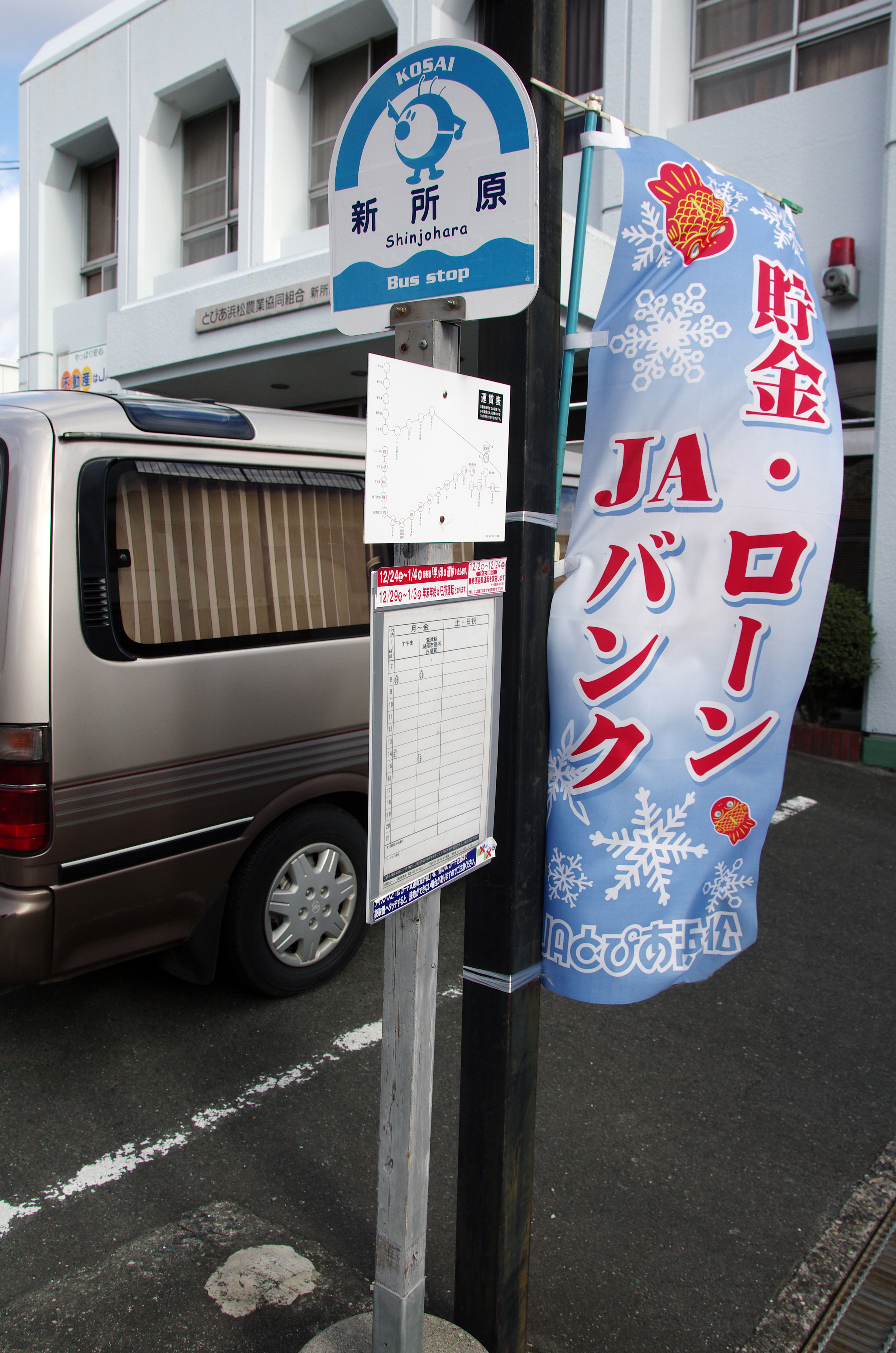 Shinjohara Bus Stop (Kosai City Bus, Jan. 2012)